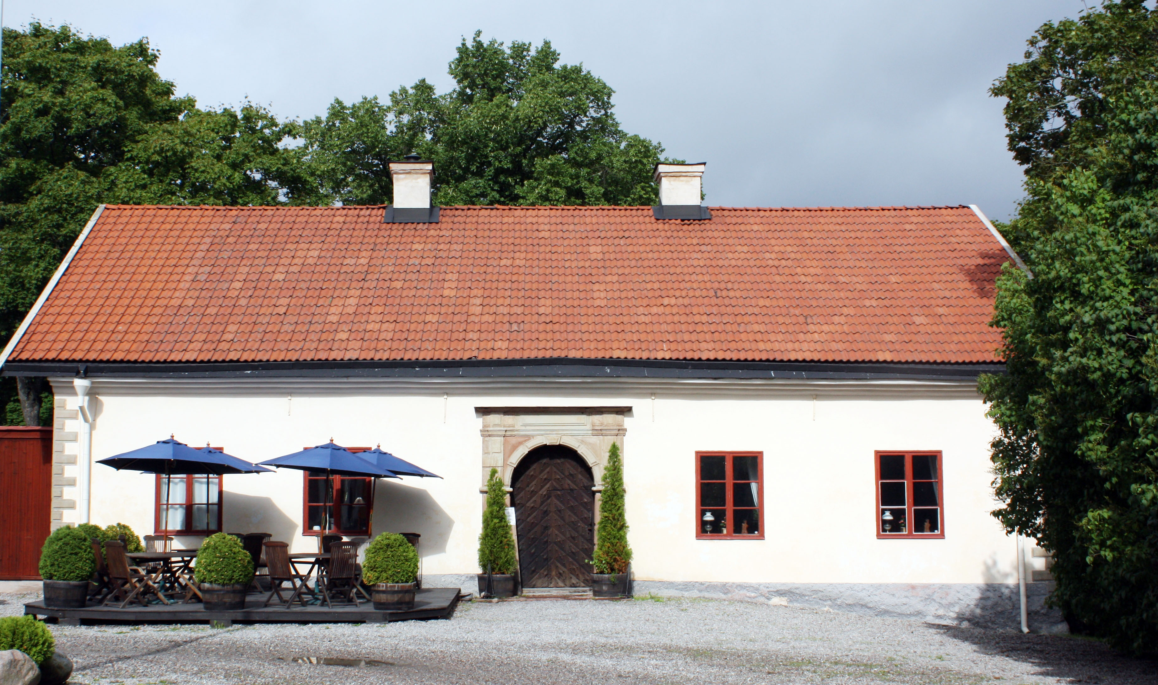 Rissne Court in Sundbyberg, Stockholm, Sweden.